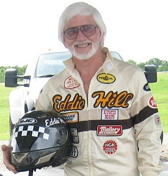 Eddie Hill at Hallett Motor Raceway 2008